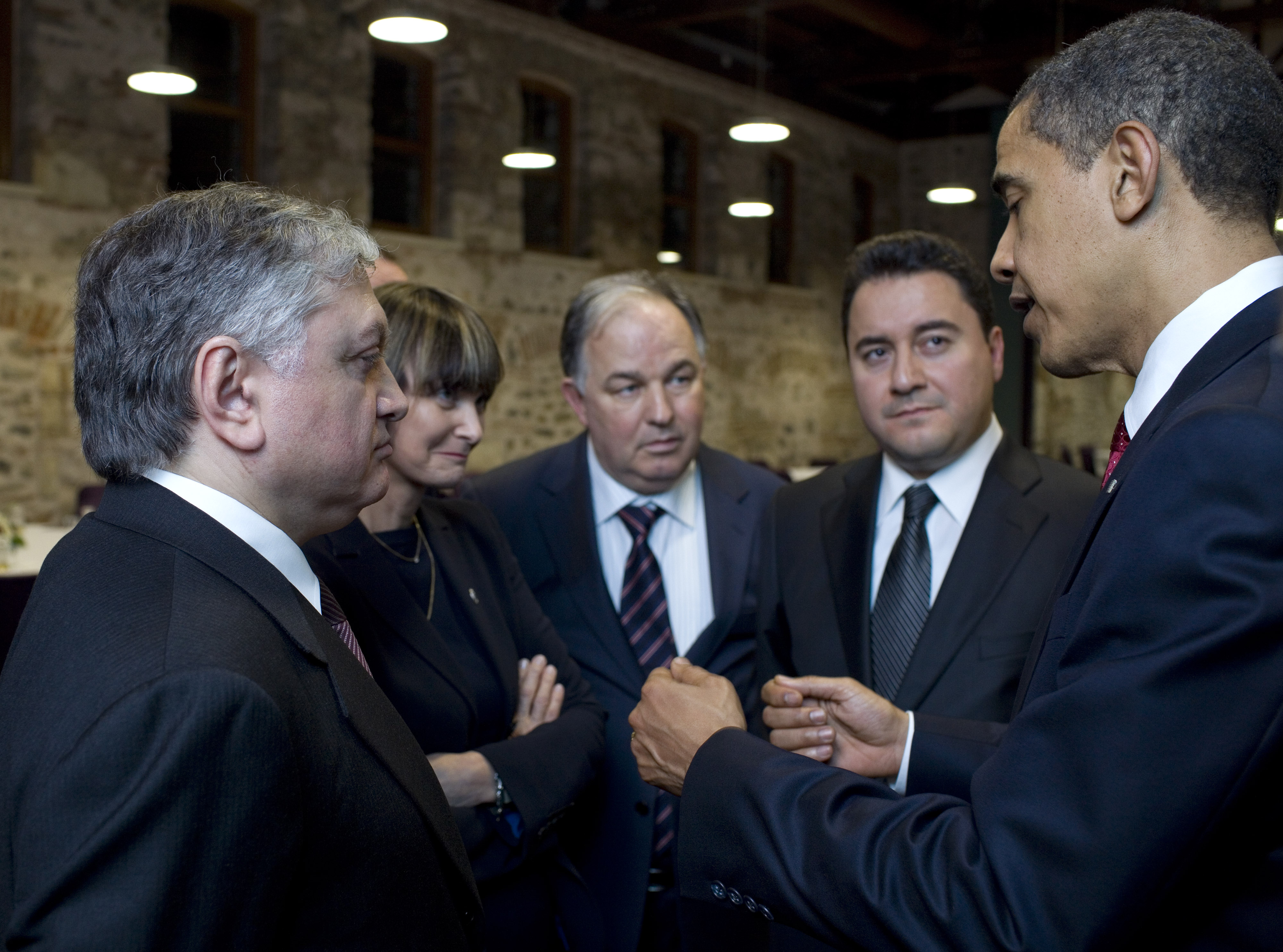 President Barack Obama meets with, left to right, Armenian Foreign Minister Eduard Nalbandian, Swiss Foreign Minister (and mediator) Micheline Calmy-Rey, Turkish undersecretary of the foreign ministry Ertugul Apakan and Turkish Foreign Minister Ali Babacan at a reception in Istanbul, Turkey on April 6, 2009. The President met with the foreign ministers to commend them on recent progress in Armenia-Turkey normalization and urged them to complete an agreement between those two important countries.